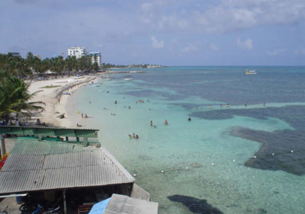 San Andres Beach, Colombia